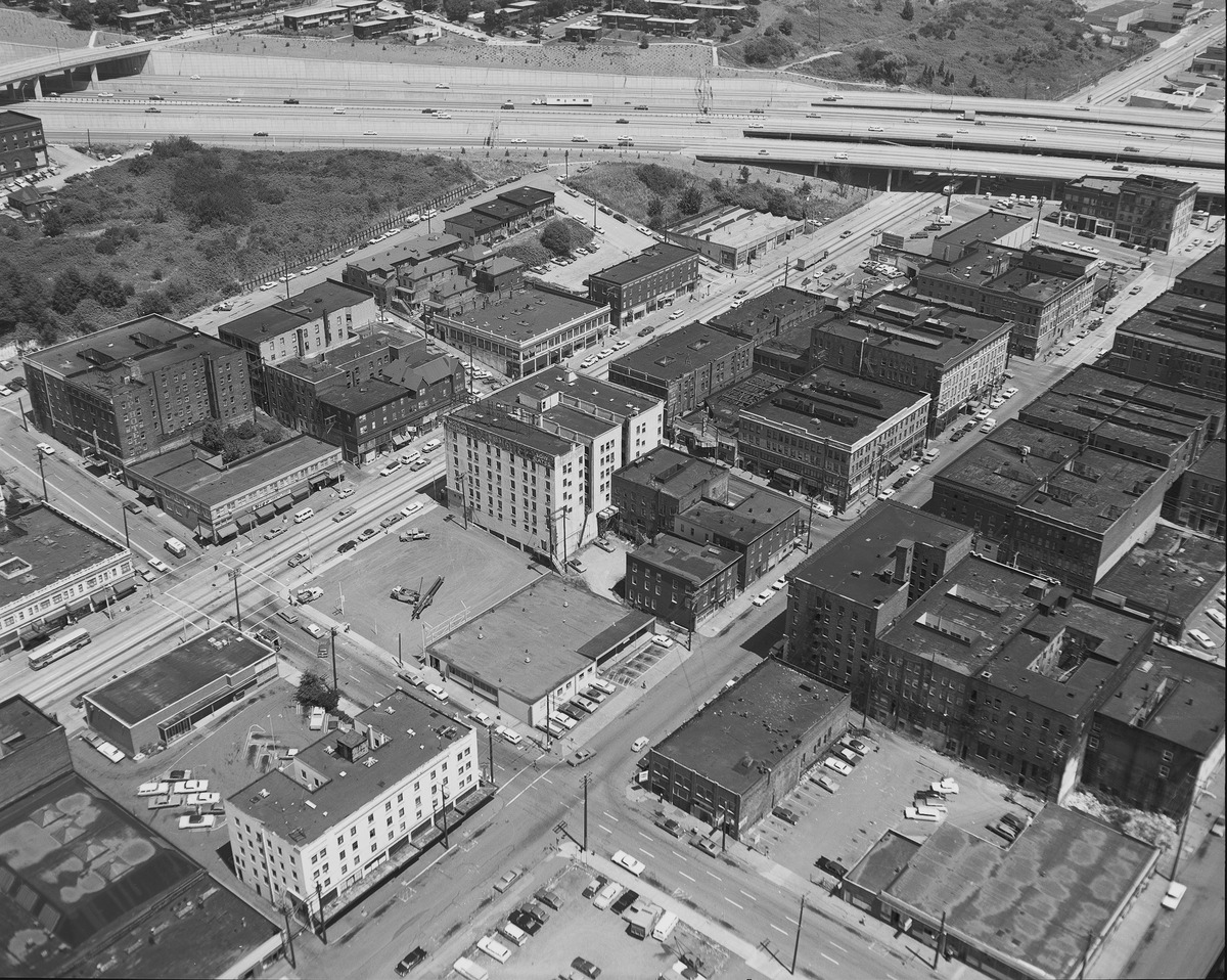 Aerial of International District, Seattle, Washington, 1969. Item 77924, Forward Thrust Photographs (Record Series 5804-04), Seattle Municipal Archives.